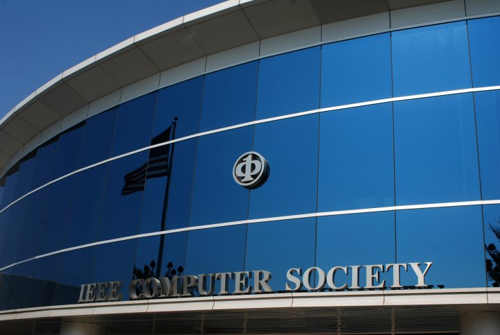 IEEE Computer Society Publications Office, Los Alamitos, CA